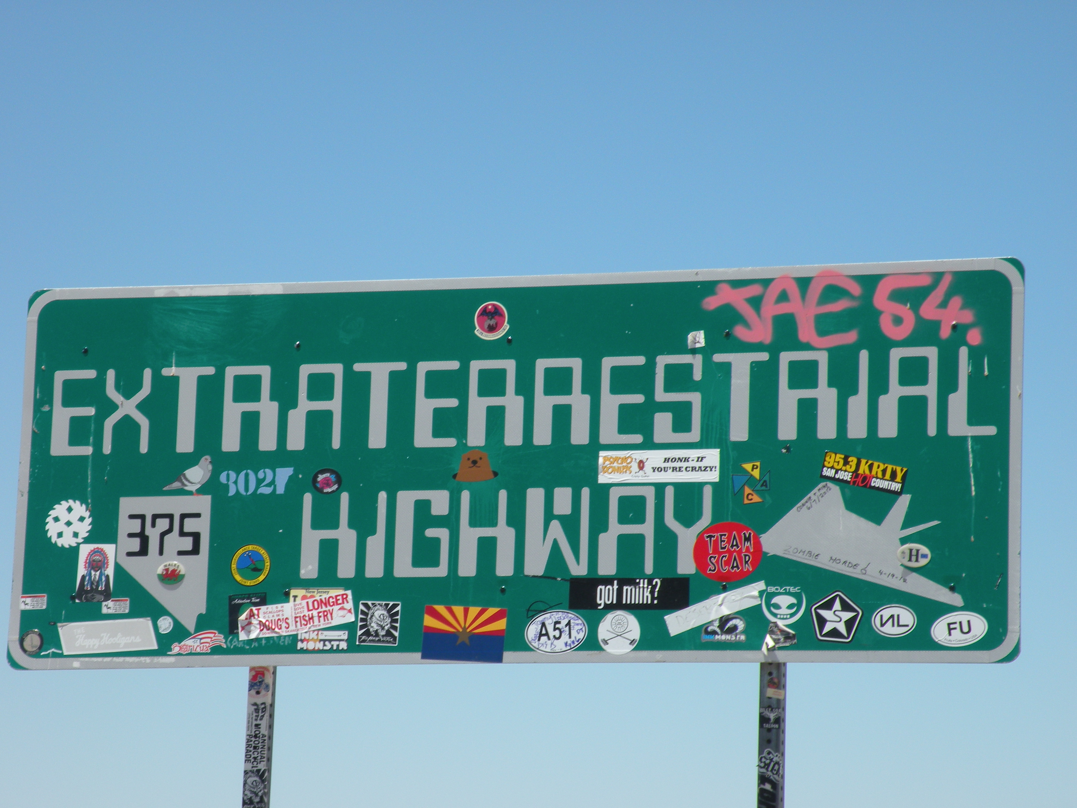 A billboard on Nevada State Route 375, proclaiming the road's status as the "Extraterrestrial Highway": stickers cover the posts and lower edge of the billboard, with scattered other stickers located throughout.